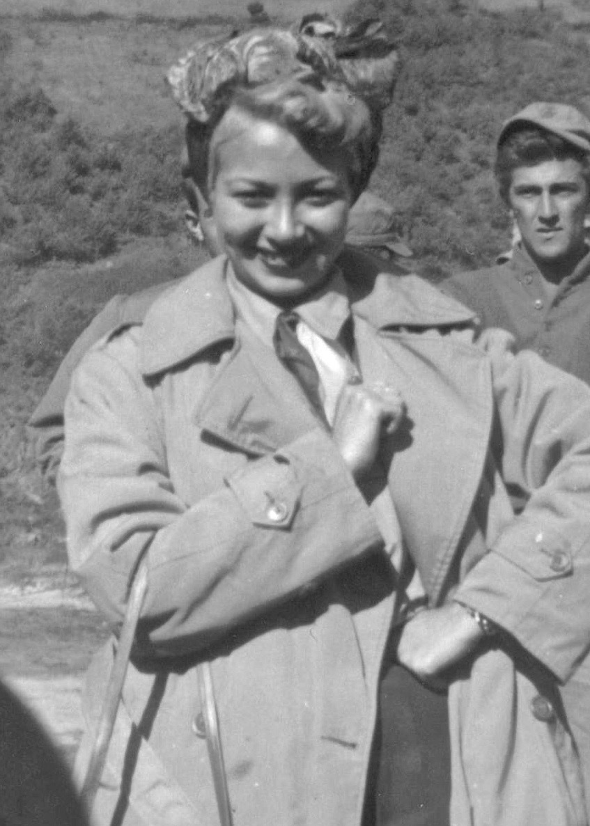 Singer and actress Monica Lewis visits the troops in Korea in 1951. From the David Strebe Collection (COLL/5414) at the Marine Corps Archives and Special Collections. OFFICIAL USMC PHOTOGRAPH